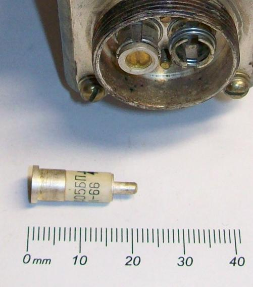 point-contact diodes in a mixer unit of a sovjet altitude radar (approx. 1966). One of two diodes is disassembled.